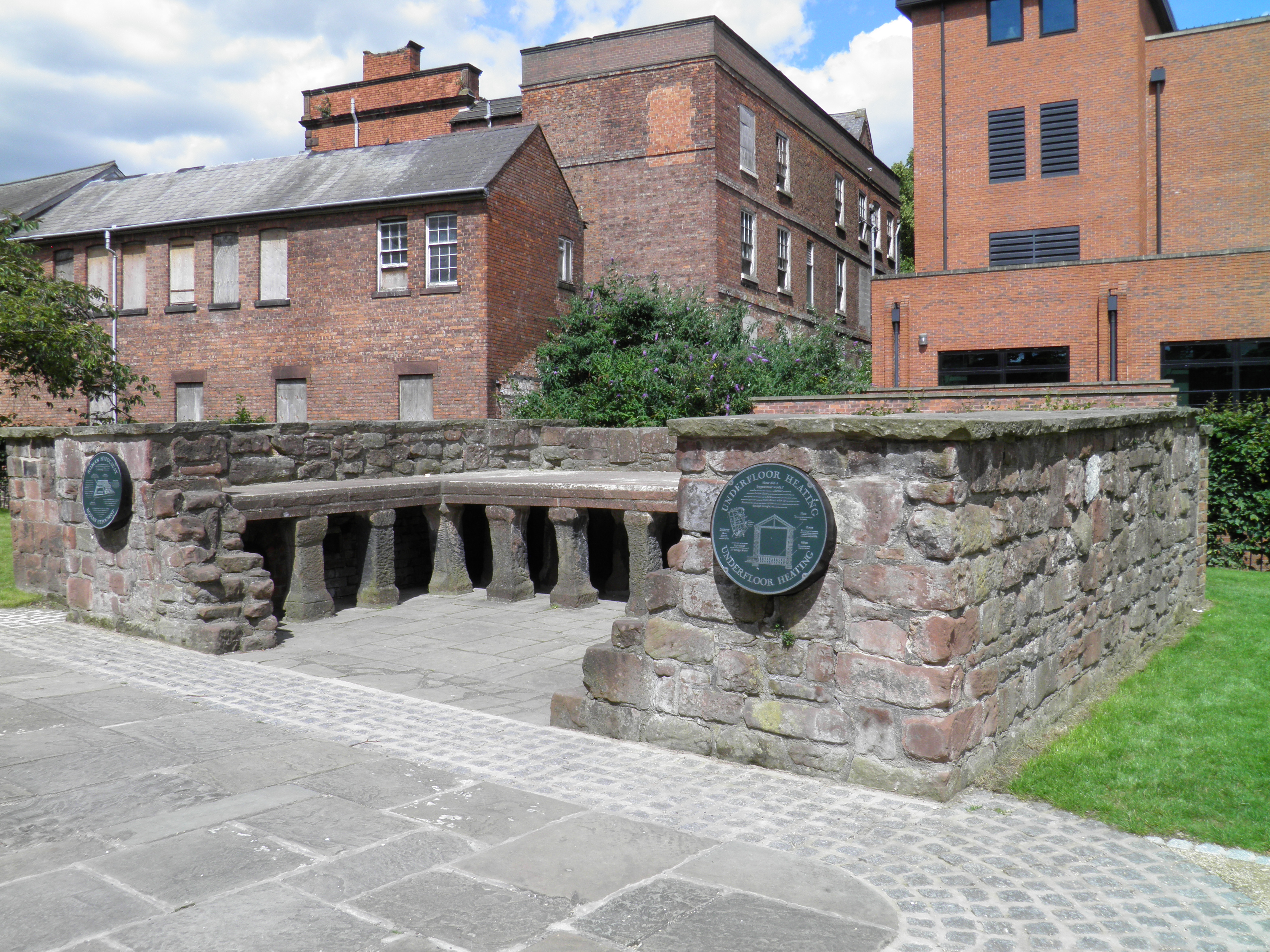 The Roman Garden, reconstructed hypocaust using the pillars (pilae) recovered in 1863 from one of the rooms in the main bath building (thermae) of the Roman fortress, Deva Victrix (Chester, UK)